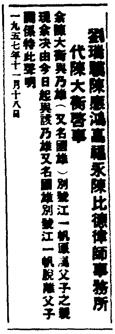 Declared Advertisement for Break Off Relations by Hong Kong Cantonese movie star Kong Yat Fan Father Mr. Chan Tai Heng (18th November 1957) 中文（香港）: 香港粵語片明星江一帆（陳乃雄）父親陳大衡刊發的「脫離父子關係」啟示（1957年11月18日）